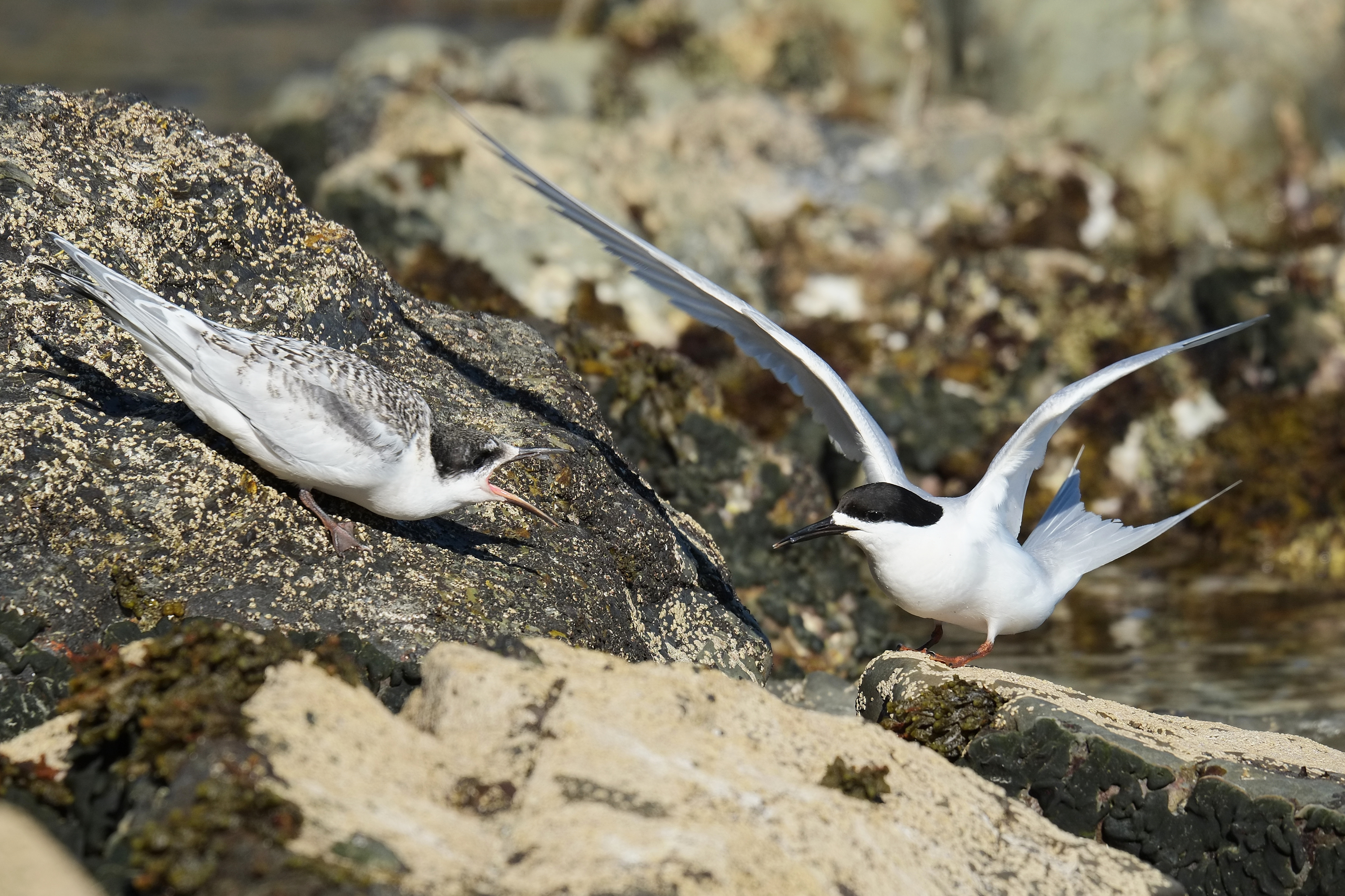 Juvenile white-fronted tern begging parent for food (on the south coast of the North Island of New Zealand, near Wellington)